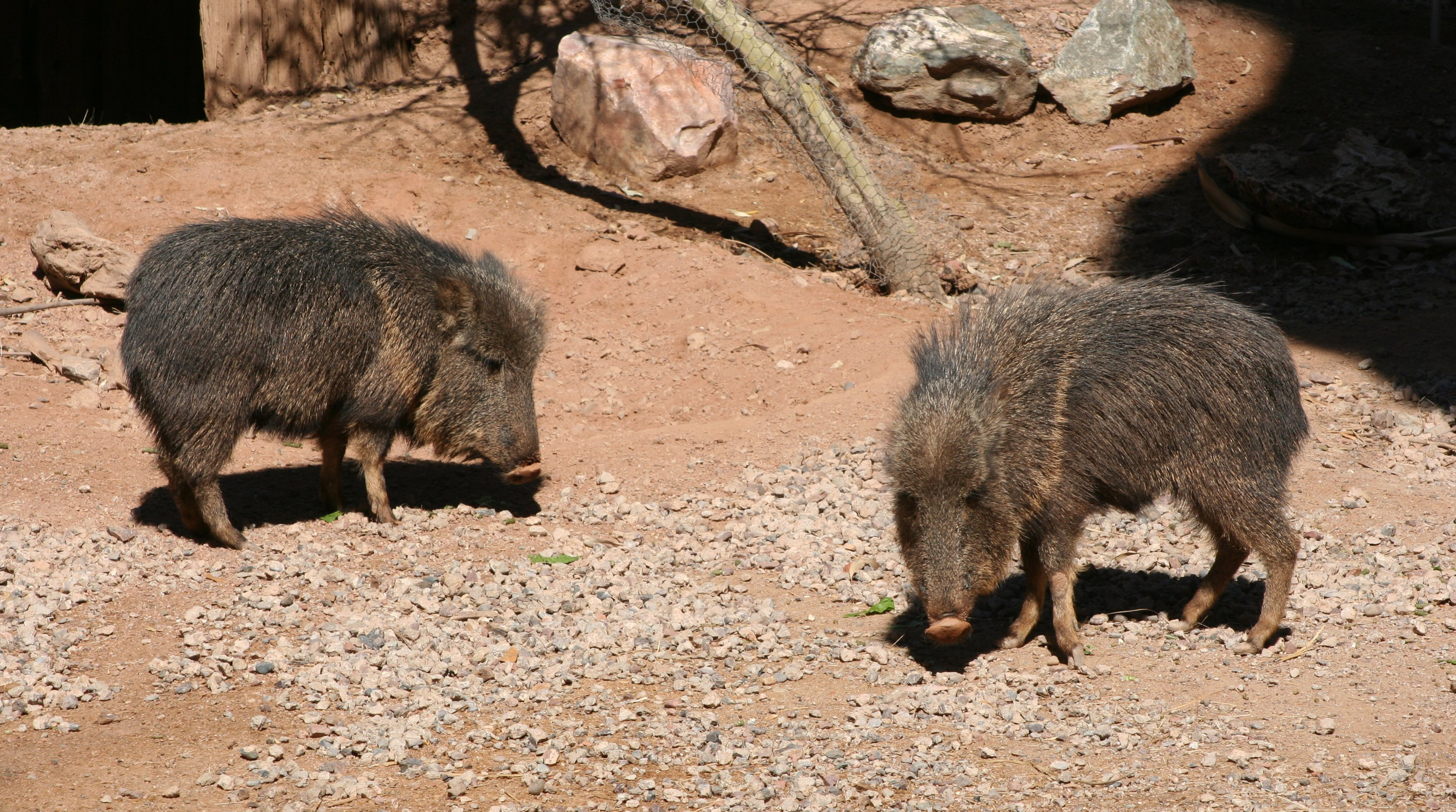 A pair of Chacoan peccaries (Catagonus wagneri). Photographed at the Phoenix Zoo, Phoenix, AZ.